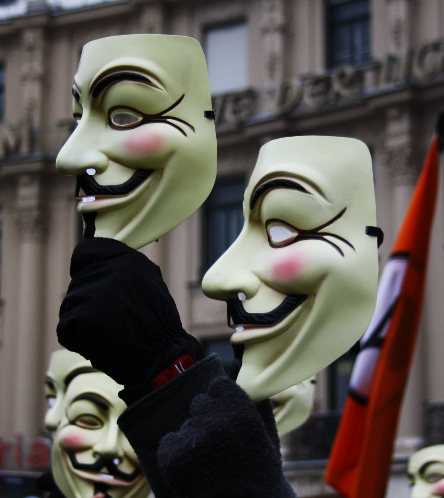 February 11th, 2012 Protest anti ACTA in Munich